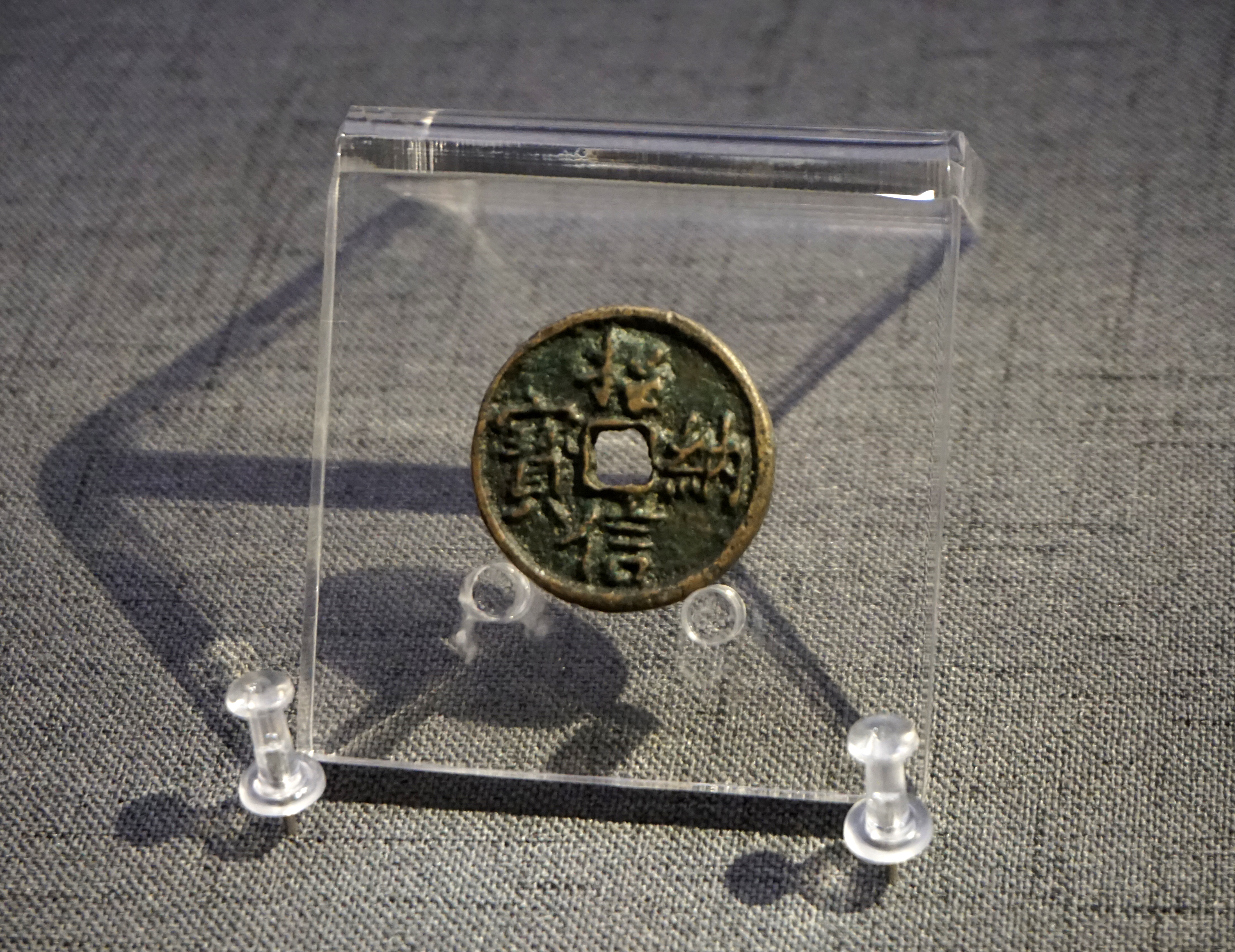 "Zhao Na Xin Bao" copper coin. The Southern Song Dynasty.